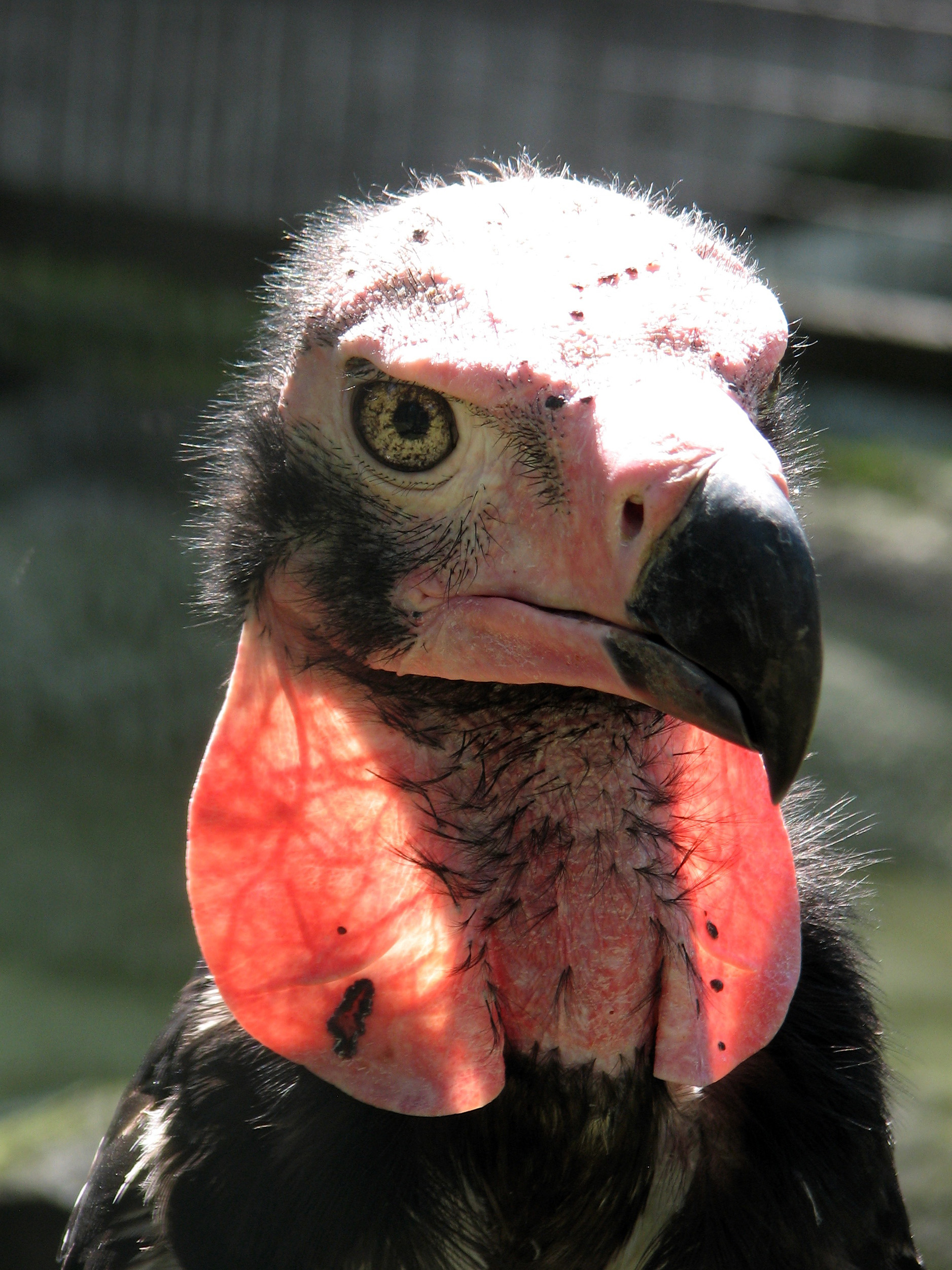 Red-headed Vulture (also known as the Asian King Vulture, Indian Black Vulture or Pondicherry Vulture) at Berlin Zoo, Germany.